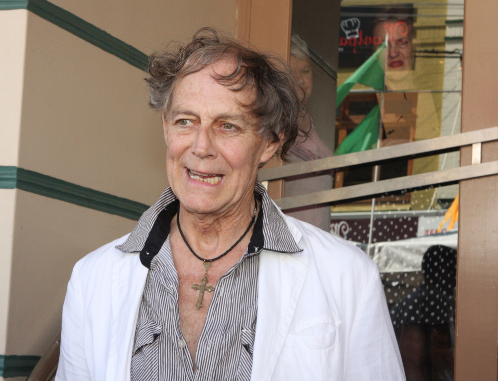 Barry Otto at the Australian Film Walk of Fame